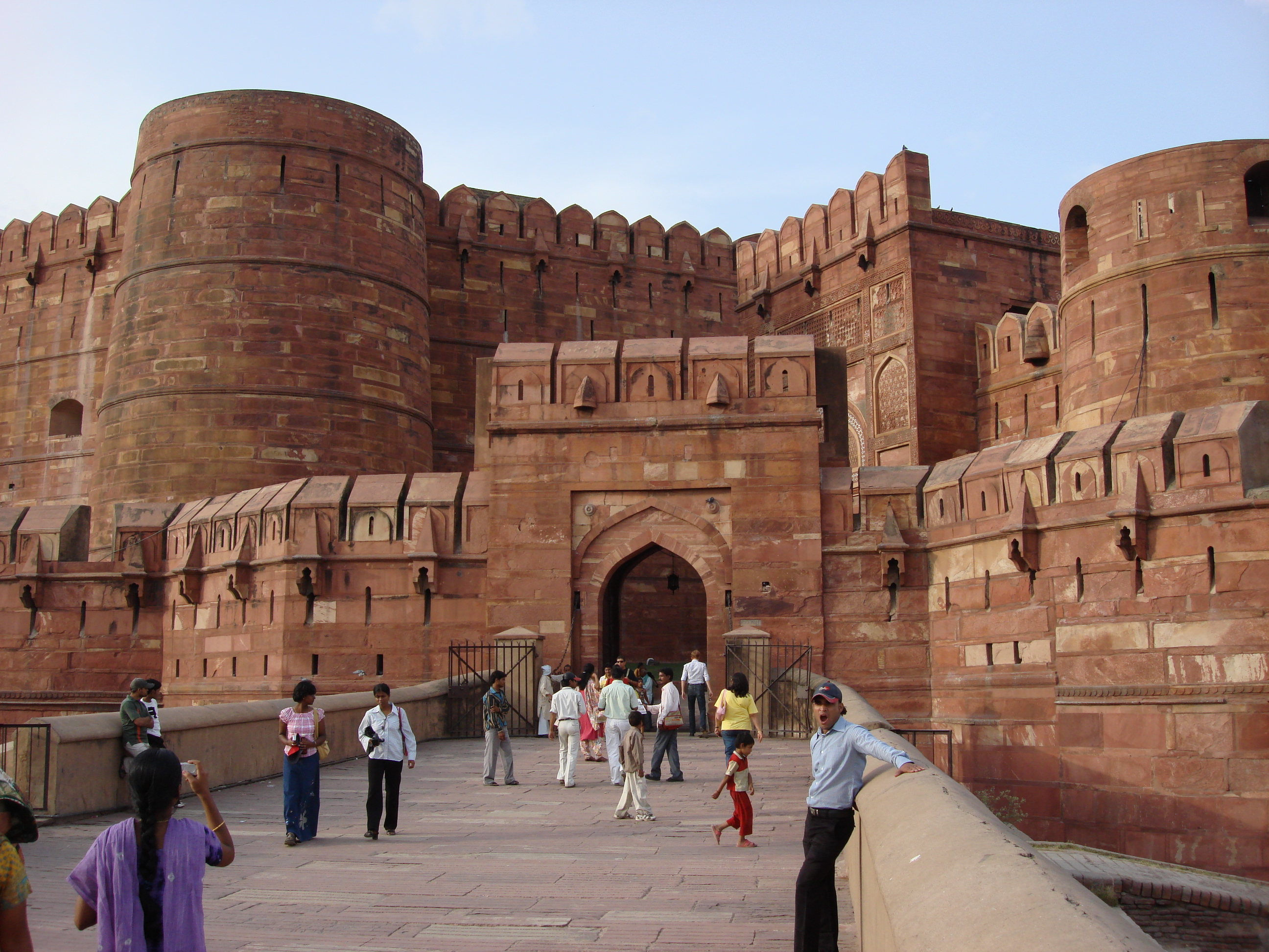 Agra Fort is a UNESCO World Heritage site located in Agra, India. The fort is also known as Lal Qila, Fort Rouge and Red Fort of Agra. It is about 2.5 km northwest of its much more famous sister monument, the Taj Mahal. The fort can be more accurately described as a walled palatial city. It is the most important fort in India. The great Mughals Babur, Humayun, Akbar, Jehangir, Shah Jahan and Aurangzeb lived here, and the country was governed from here. It contained the largest state treasury and mint. It was visited by foreign ambassadors, travellers and the highest dignitaries who participated in the making of history in India.